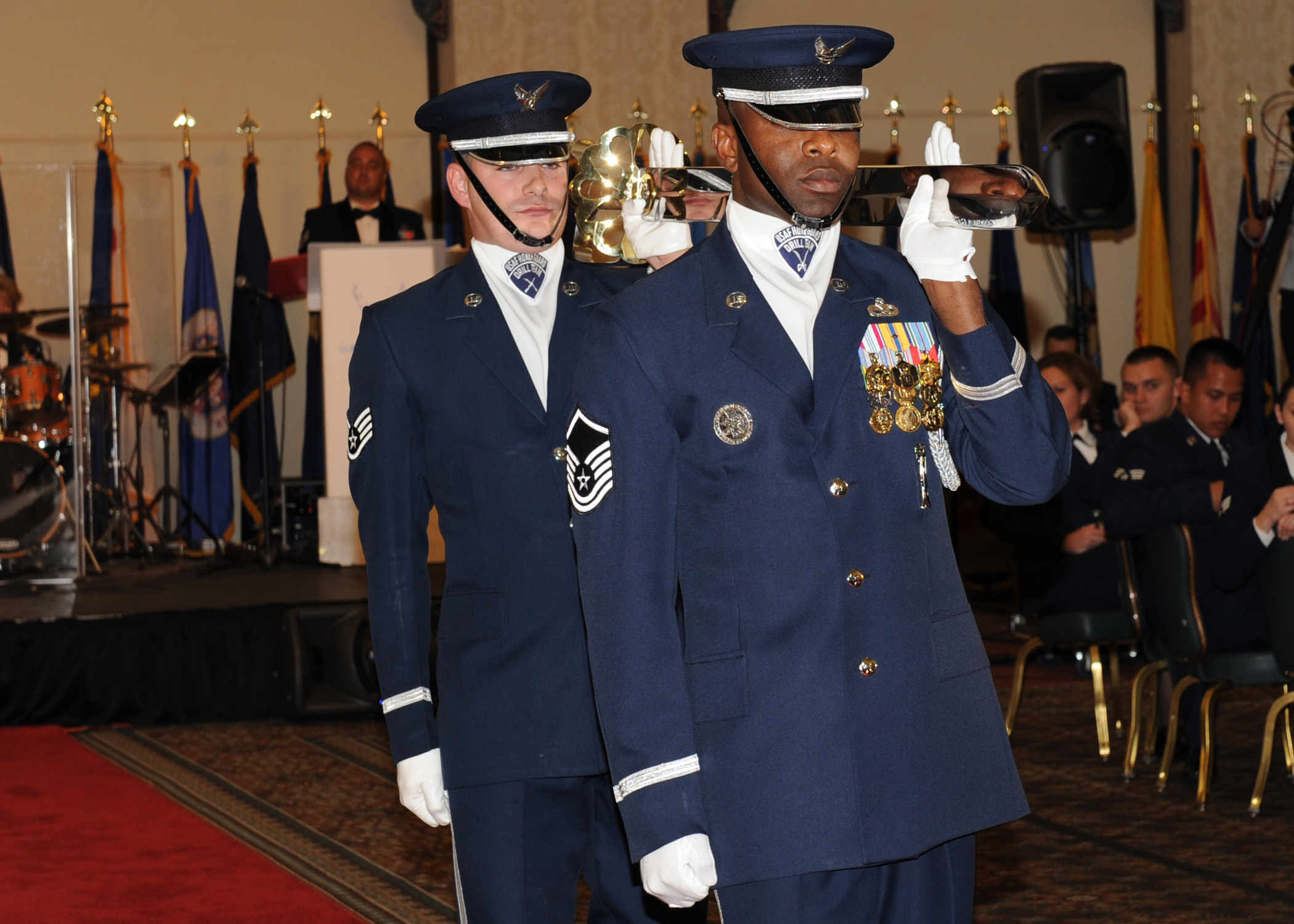 Airmen of the U.S. Air Force Drill Team post the Air Mobility Command ceremonial sword at the head table during the Order of the Sword ceremony Friday at Scott. General Arthur J. Lichte, AMC commander, is the ninth recipient of the AMC Order of the Sword.